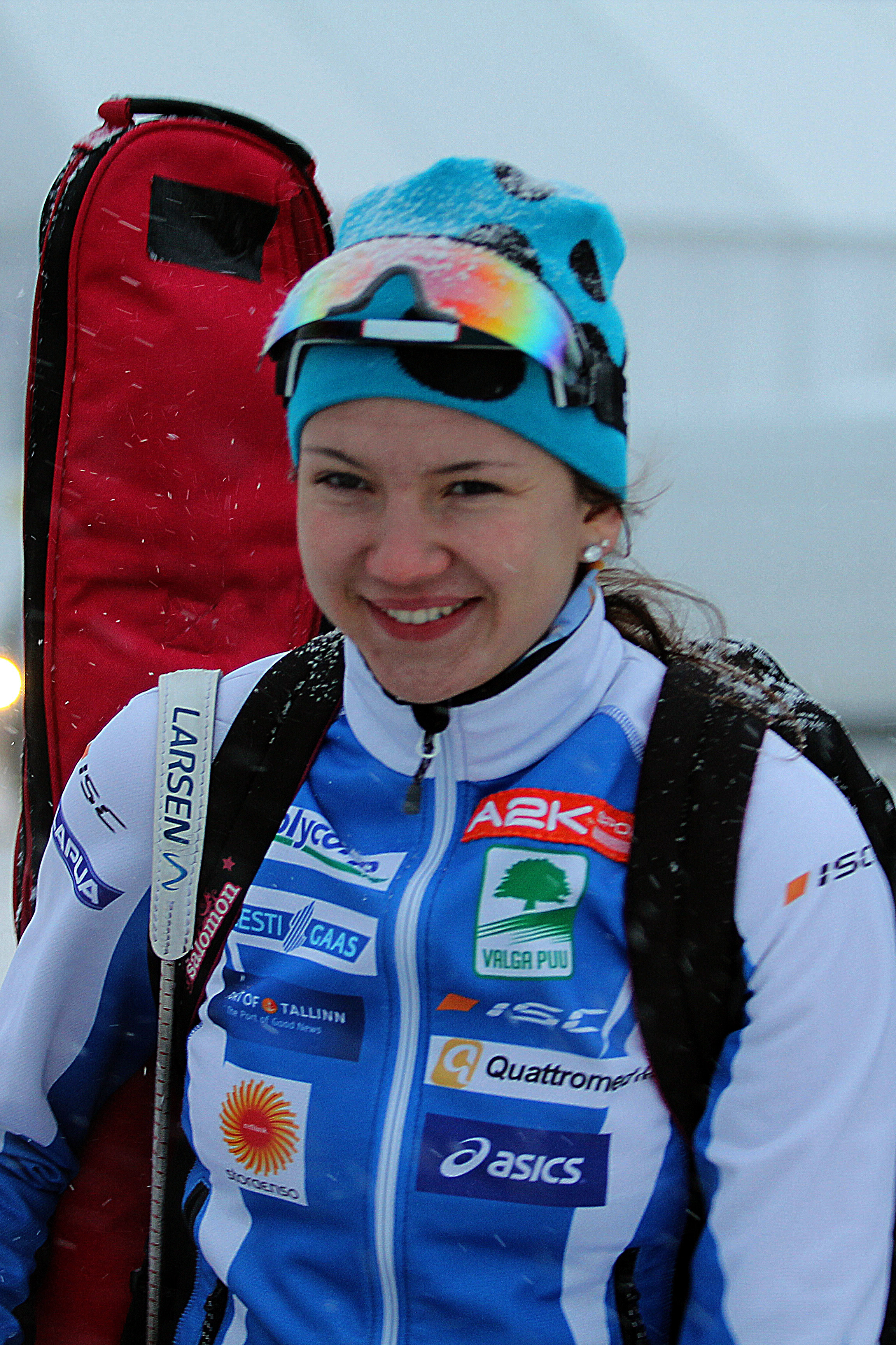 Daria Yurlova at Biathlon Weltcup in Hochfilzen 2012